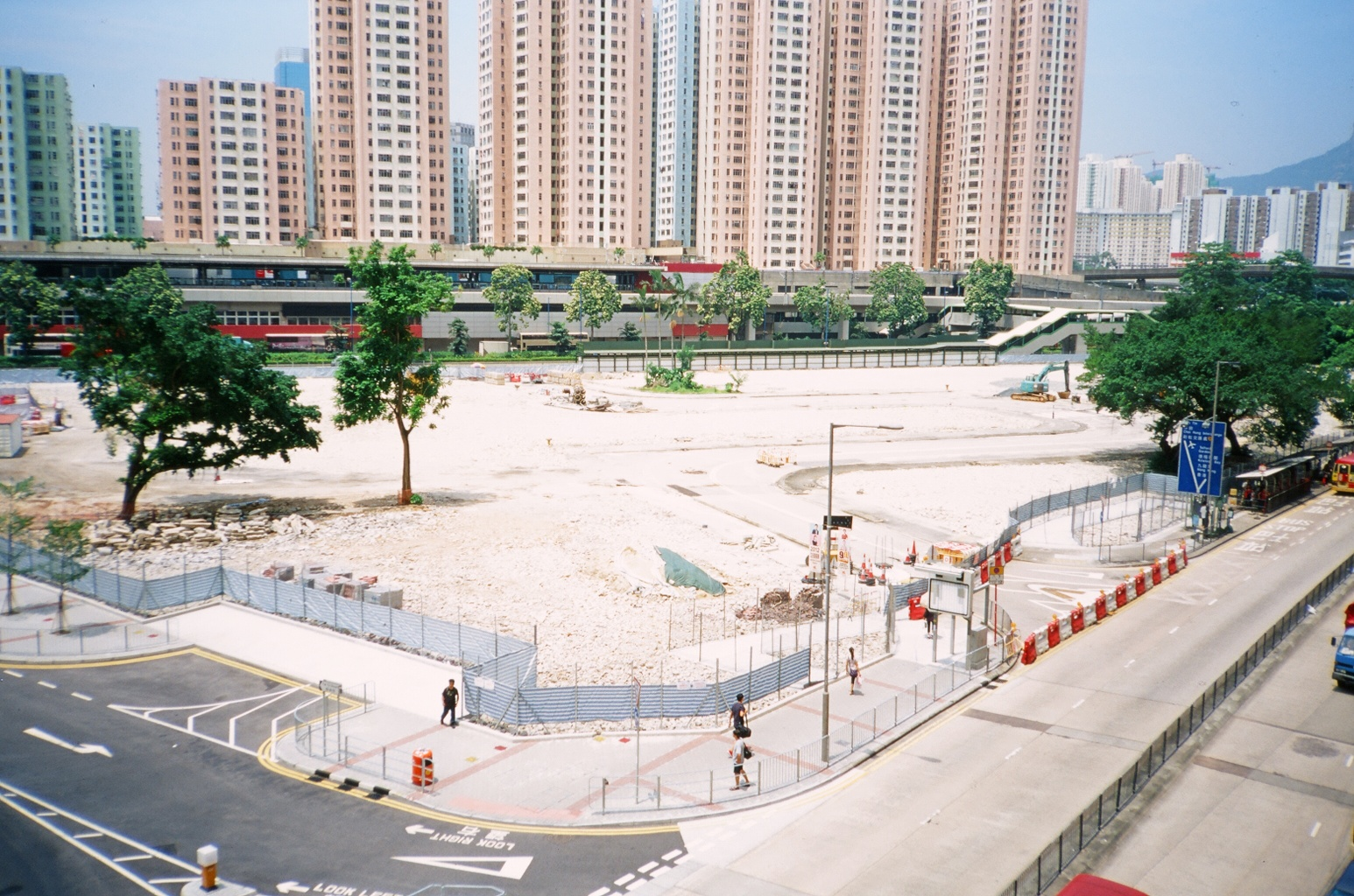 A view taken from Amoy Garden towards the west, Ngau Tau Kok Fourth Street and Ngau Tau Kok Fifth Street are seen. Those streets was closed and would soon be demolished.